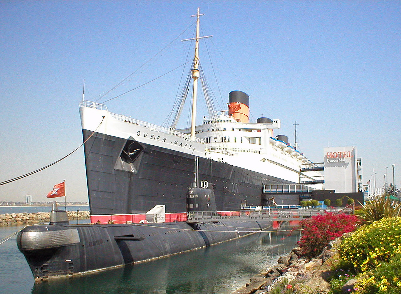 RMS Queen Mary & B-427